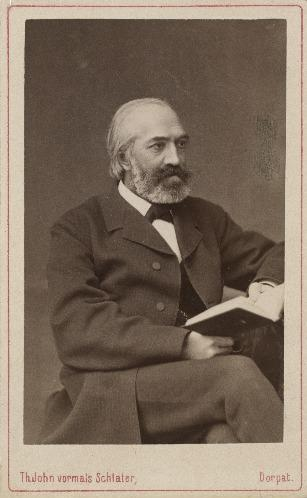 Ernst Johann Georg Sokolowsky (8.02.1833 – 26.02.1899), Estonian clergyman